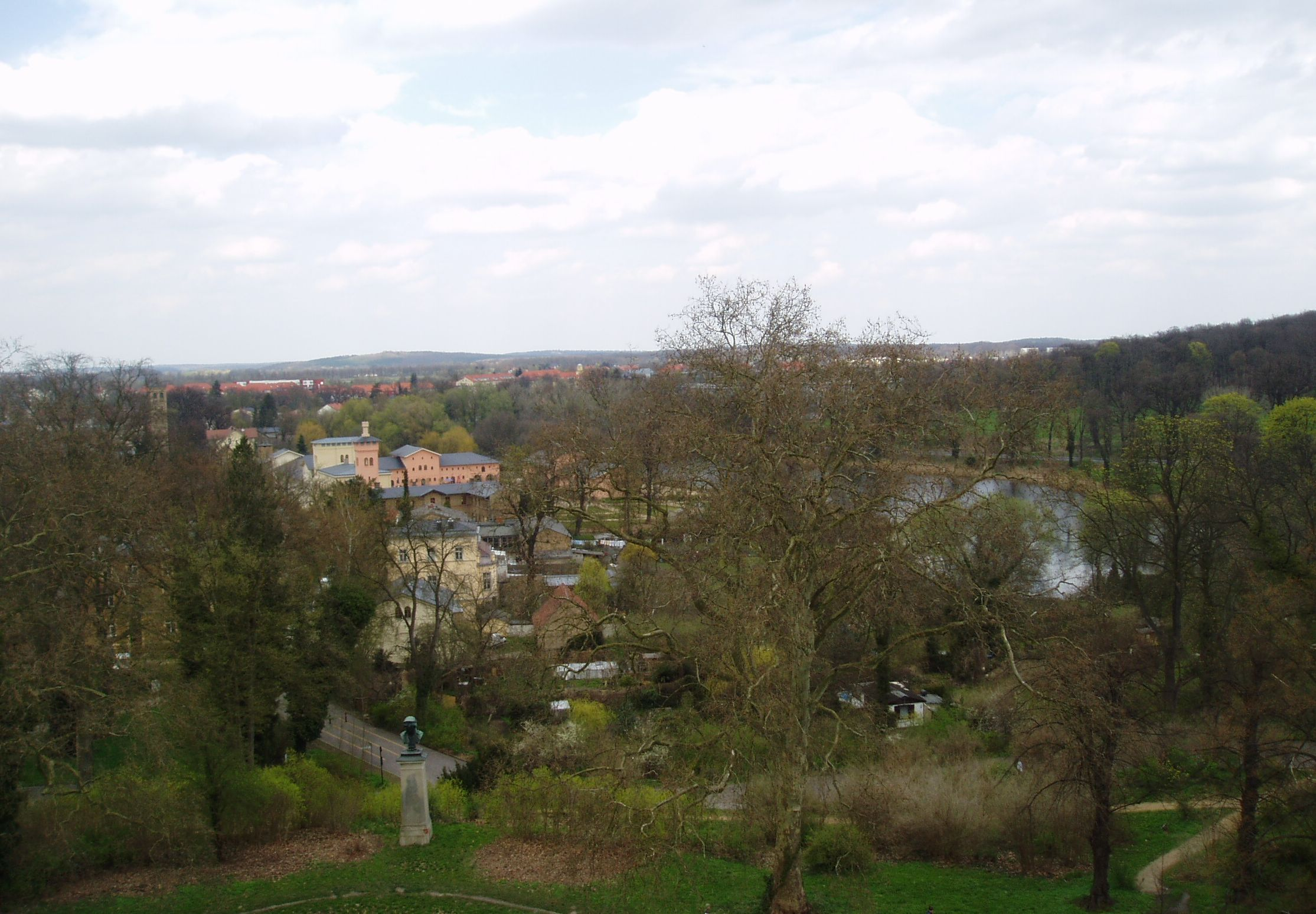 View from Orangery palace to north, Potsdam, Germany